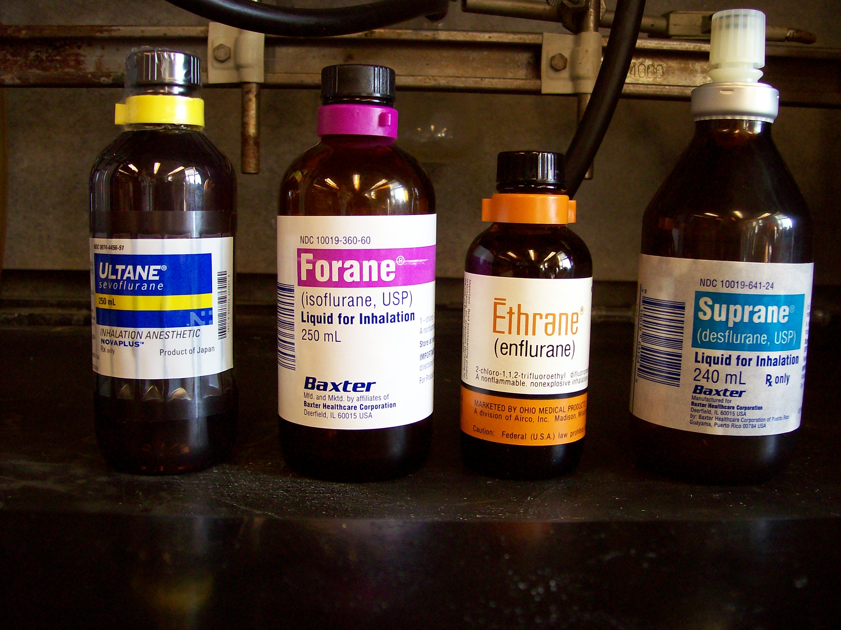 Bottles of sevoflurane, isoflurane, enflurane and desflurane, the most common fluorinated ether (flurane) inhalation anesthetics. Fluranes are color-coded – sevoflurane is marked yellow, isoflurane purple, enflurane orange and desflurane blue. Note the valve cap on the desflurane bottle – at 23.5 °C the boiling point of this compound is near room temperature.